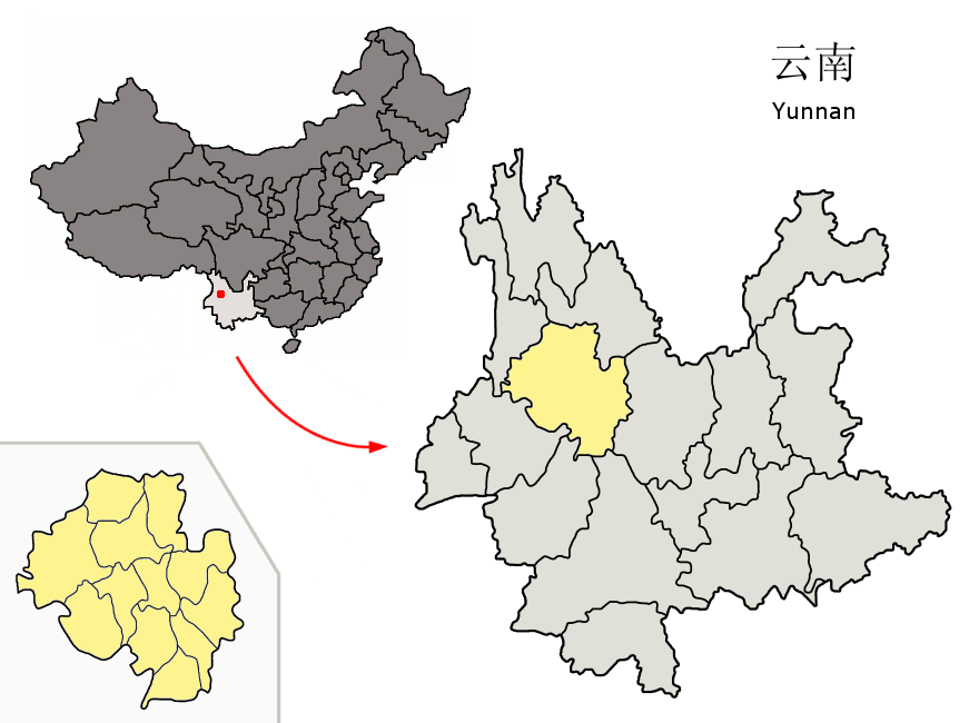 Location of Dali Prefecture (yellow) within Yunnan province of China Map drawn in september 2007 using various sources, mainly : Yunnan province administrative regions GIS data: 1:1M, County level, 1990 Yunnan Counties map from